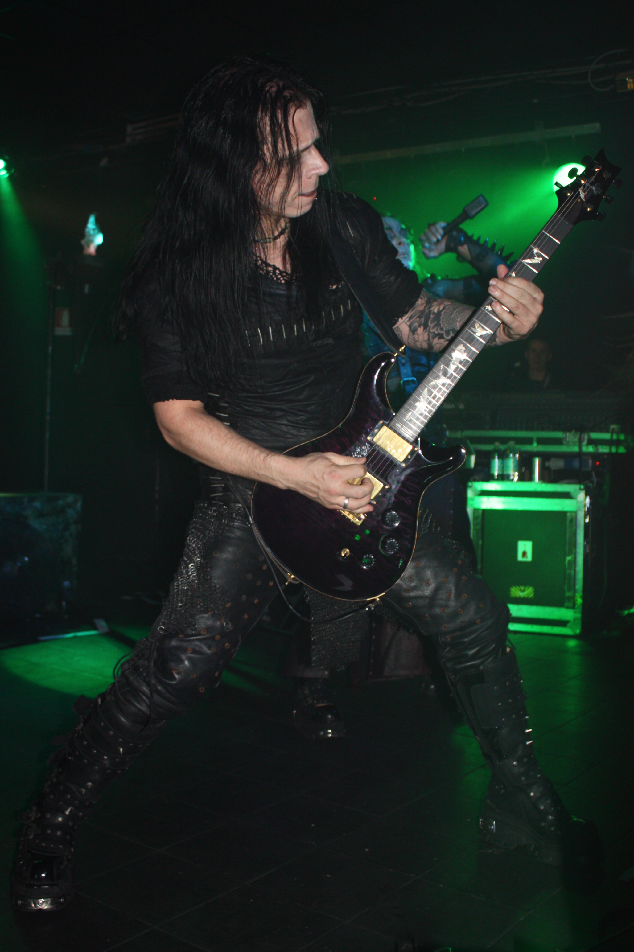 Paul Allender of Cradle of Filth